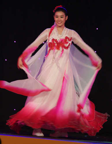 Miss Korea Choi Bo-in dancing in the talent show of Miss World 08